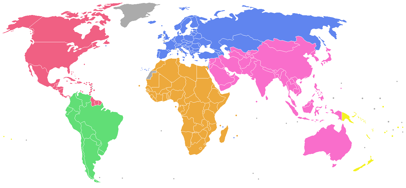 Map of the members of FIFA according to their confederation, on the 1st January 2006 (before this date, see this map): AFC - Asian Football Confederation in Asia and Australia CAF - Confédération Africaine de Football in Africa CONCACAF - Confederation of North, Central American and Caribbean Association Football in North America and Central America CONMEBOL - Confederación Sudamericana de Fútbol in South America OFC - Oceania Football Confederation in Oceania UEFA - Union of European Football Associations in Europe